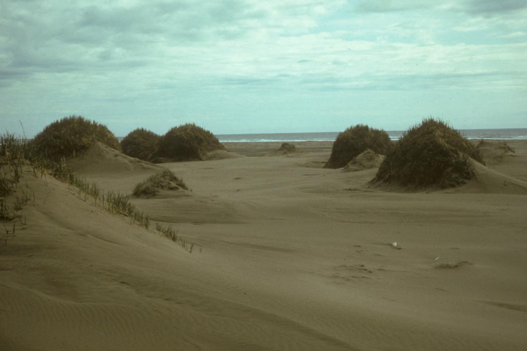 Sand dunes, with hummocks stabilized by vegetation, coast of Nunivak Island, looking toward the sea, exact location not specified.